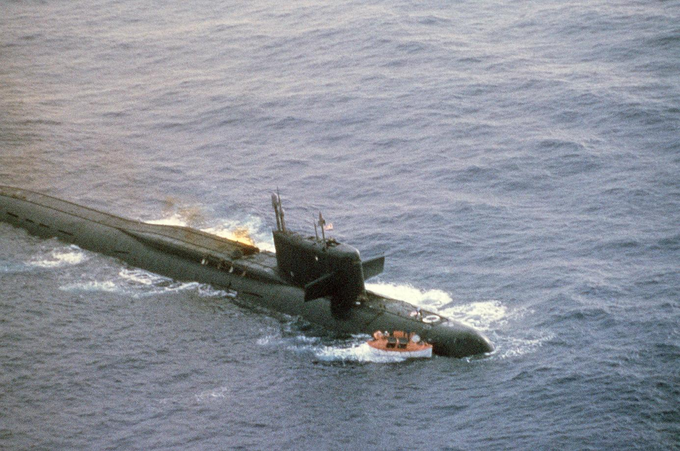 A starboard bow view of the Soviet Yankee class nuclear-powered ballistic missile submarine that was damaged by an internal liquid missile propellant explosion. Three days later the ship sank in 18,000 feet of water.